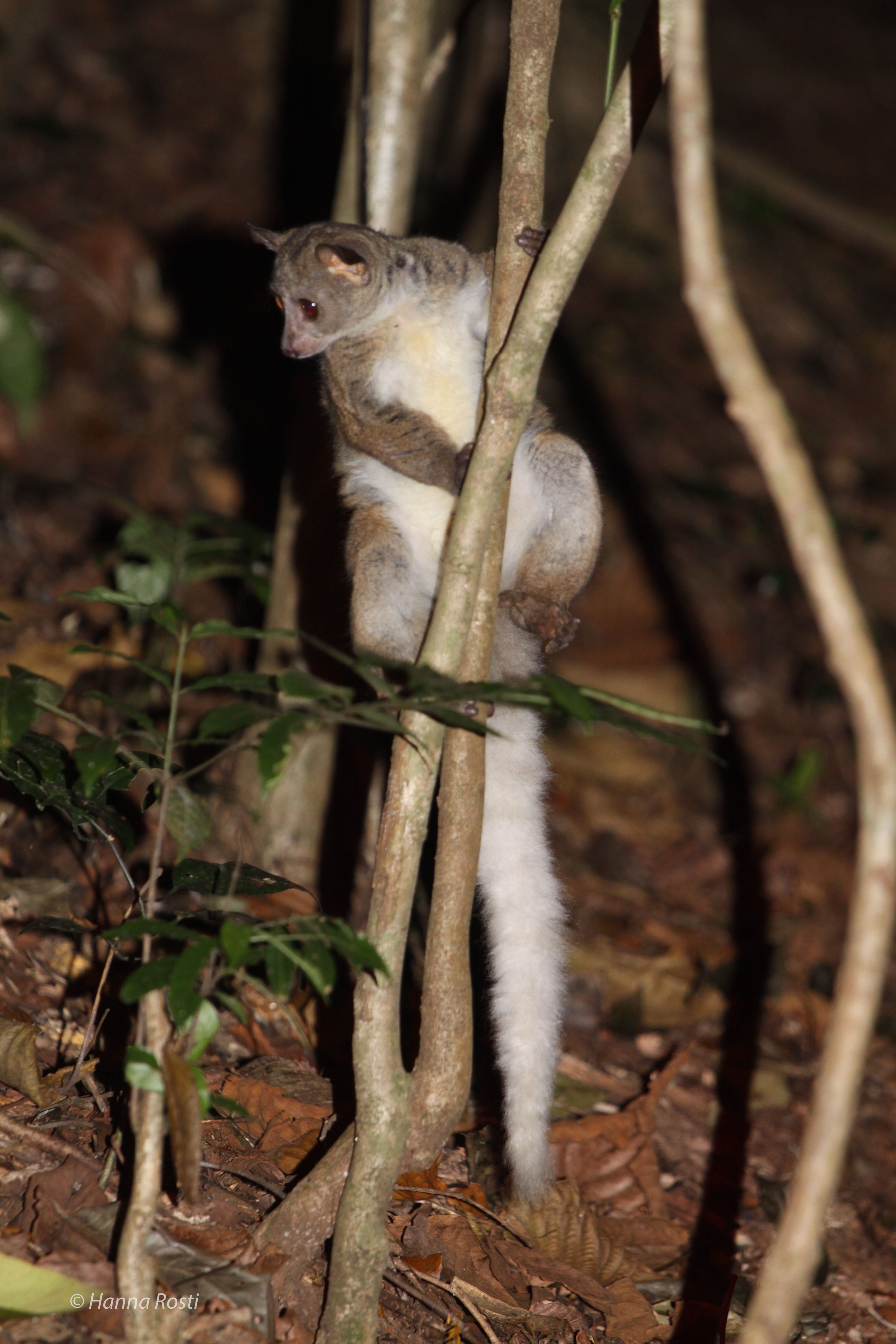 Small-Eared Greater Galago hunting insects in Ngangao Forest Taita Hills, Kenya.